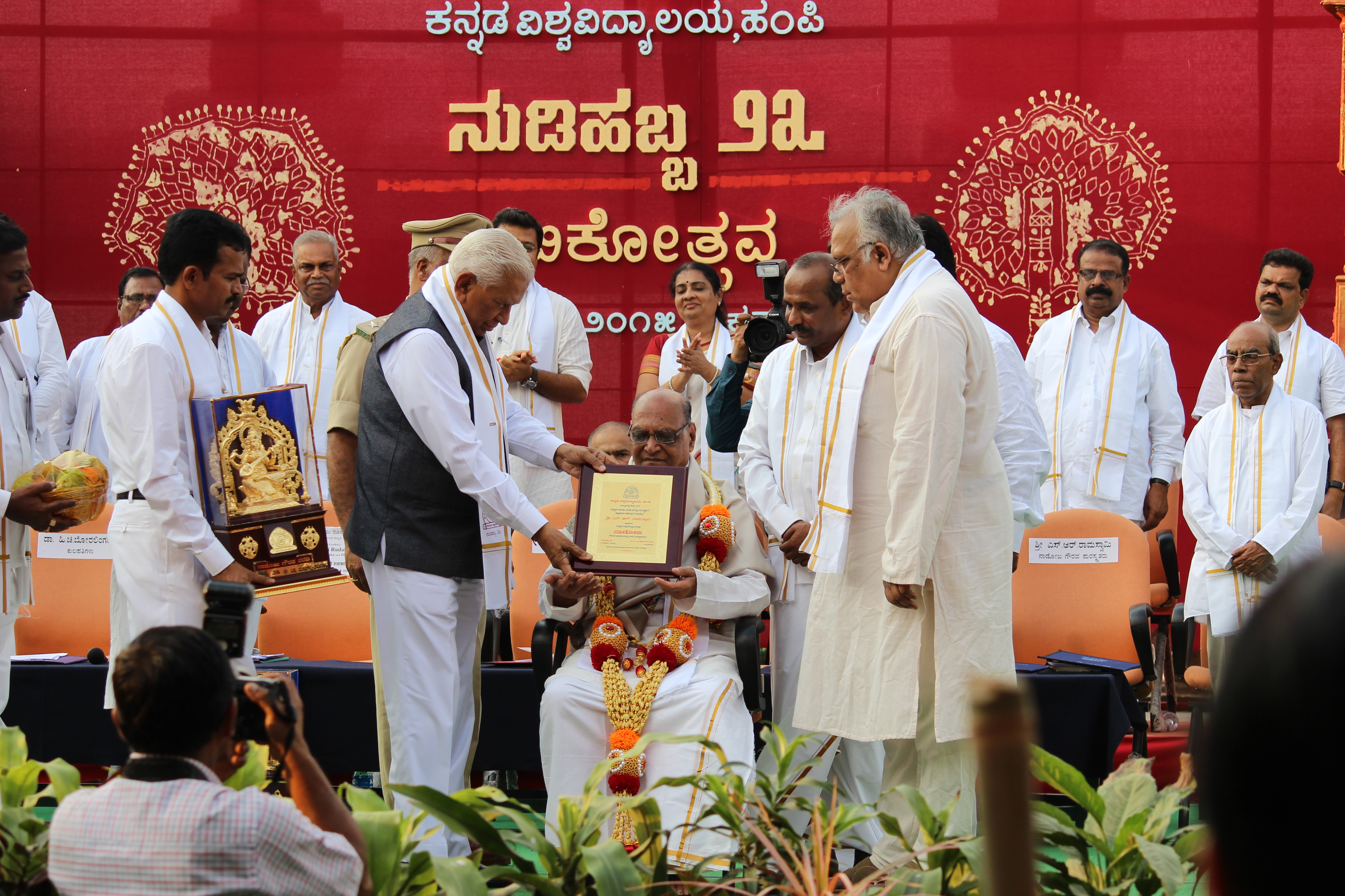 Eminent Indian Journalist S. R. Ramaswamy being conferred the prestigious 'Nadoja' Felicitation